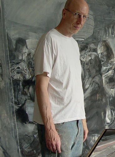 Johannes HEISIG in his studio in front of one of his "once upon a time" paintings"